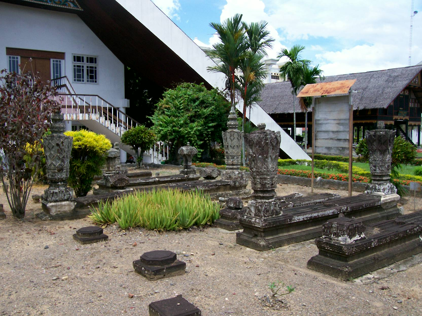 Aceh sultans graveyard complex from Bugis.